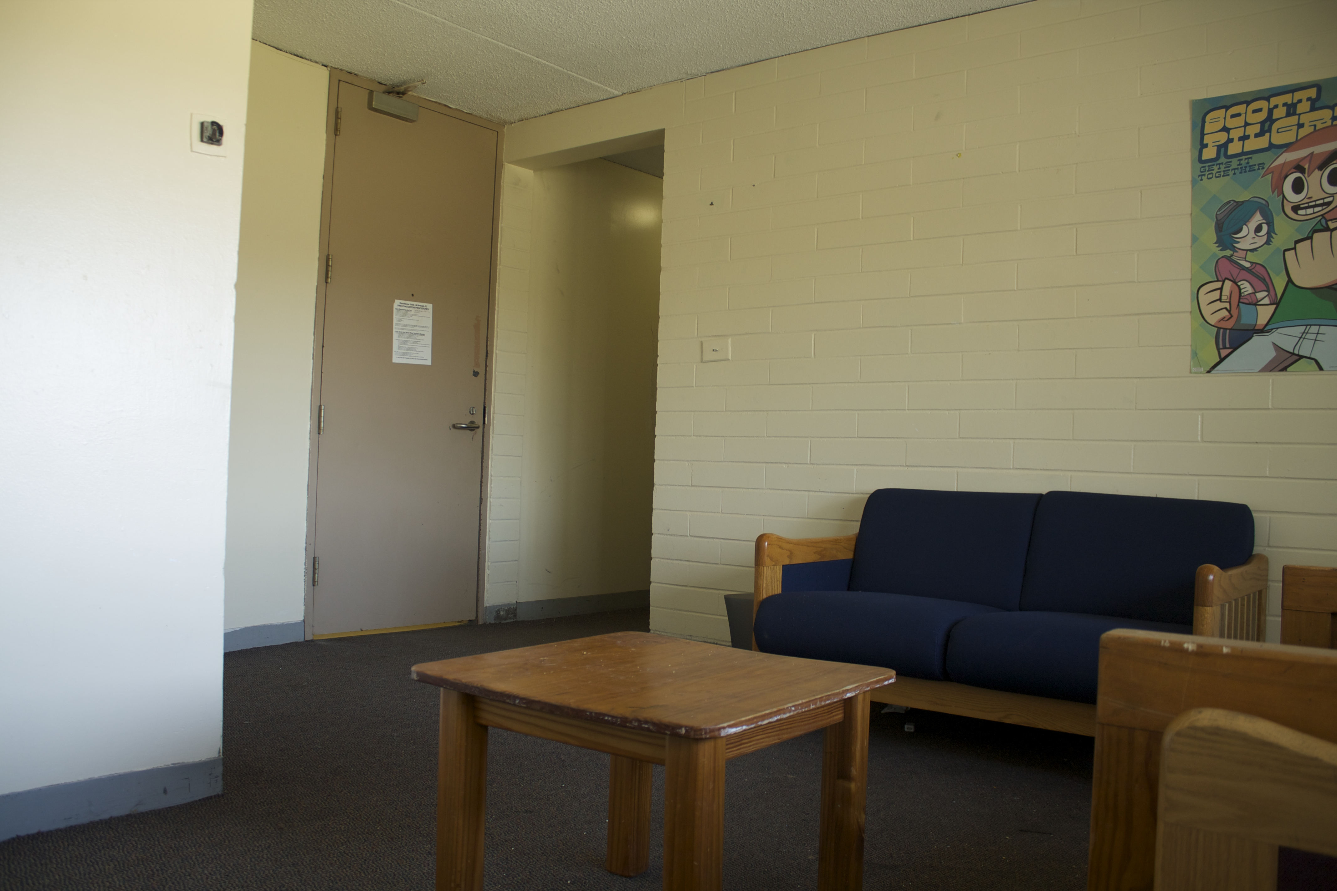 A common room in the Crossroads residence hall at SUNY Purchase.